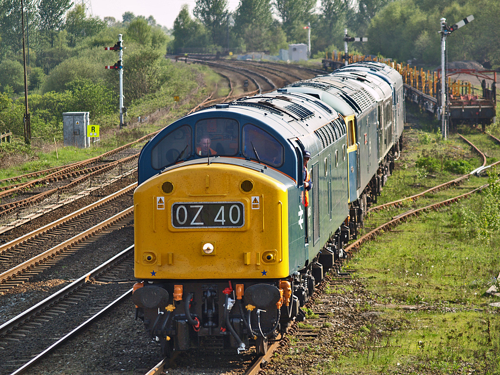 Class 40 Preservation Society's former British Railways English Electric Type 4 1Co-Co1 class 40 diesel-electric locomotive number 40145 (TOPS number 89445) passes by Castleton East Junction signal box 27 signal (Dn. Goods Loop Home 2) hauling Peter Waterman’s former British Railways Brush Type 4 Co-Co class 47/4 diesel-electric locomotive number 47402 Gateshead, Bury Type 2 Group’s former British Railways Type 2 Bo-Bo diesel-electric locomotive number D5054 (TOPS number 89254) and ? former British Railways Type 4 1Co-Co1 class 45/1 diesel-electric locomotive number 45135 3RD CARABINIER forming the 09:30 (Additional) Grosmont to Castleton East Junction (0Z40). Wednesday 10th May 2006